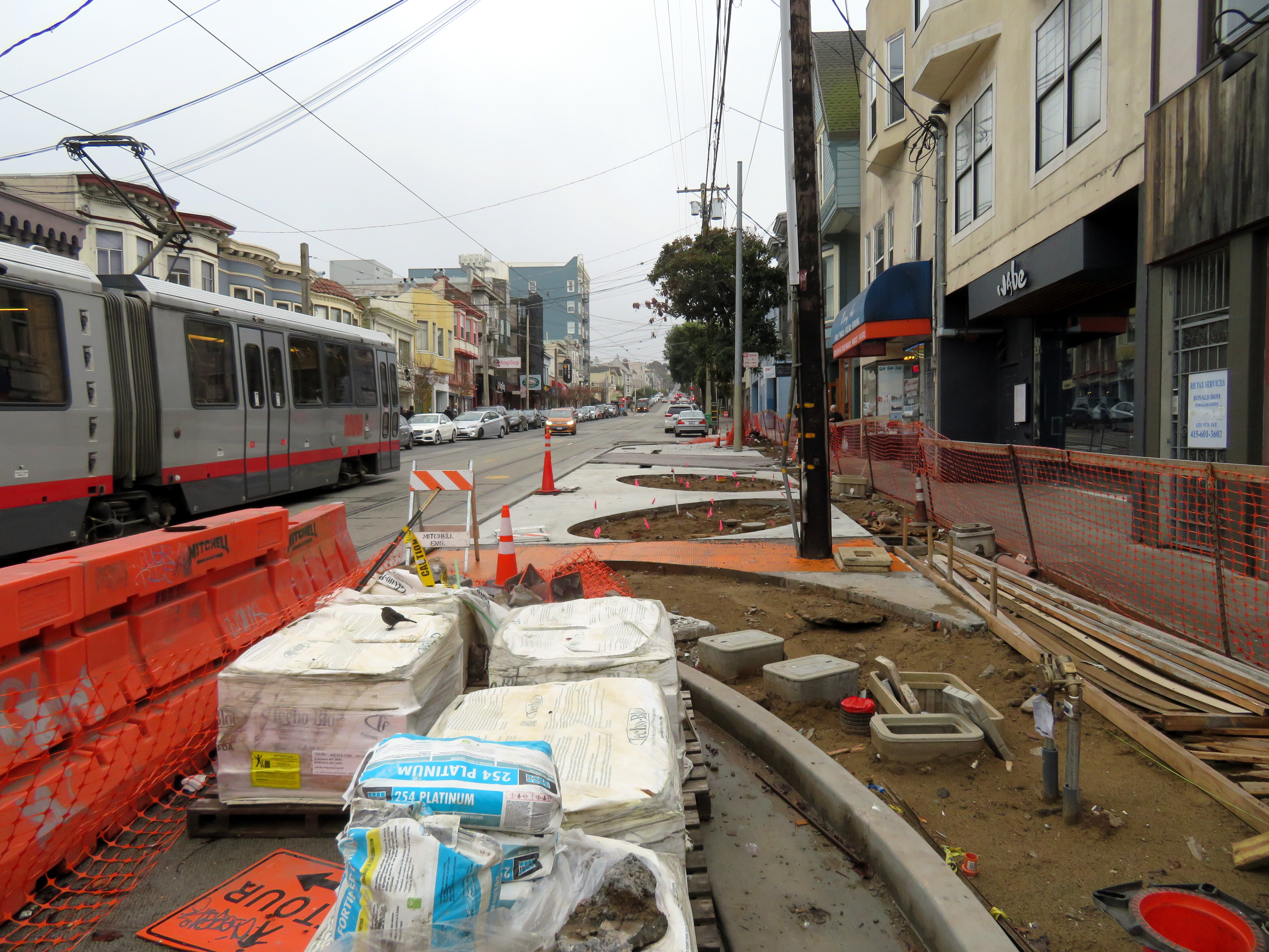 Construction of the new outbound platform at 9th Avenue and Irving station in January 2019